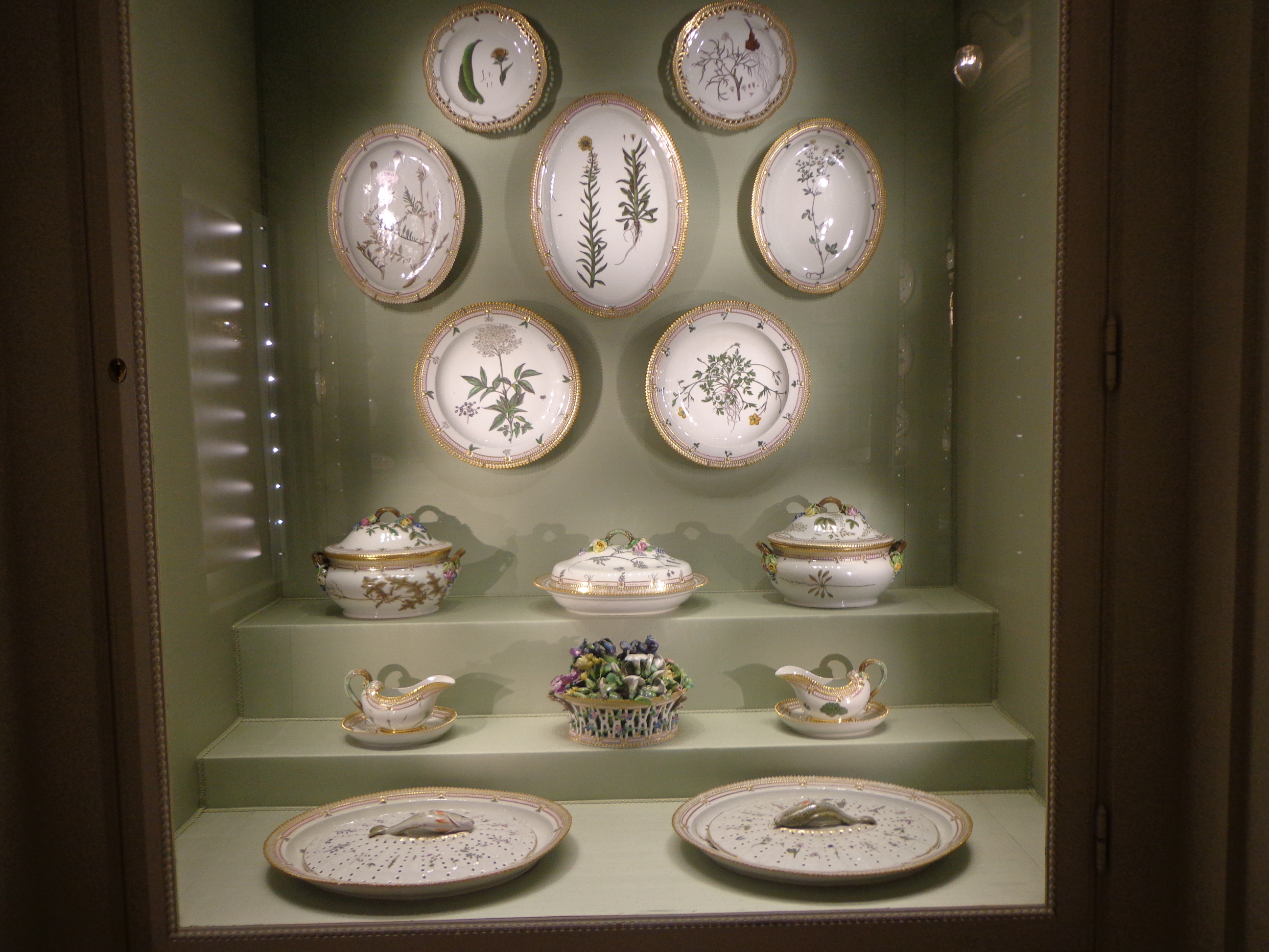 Pictures taken in Copenhagen, Denmark, November 2013